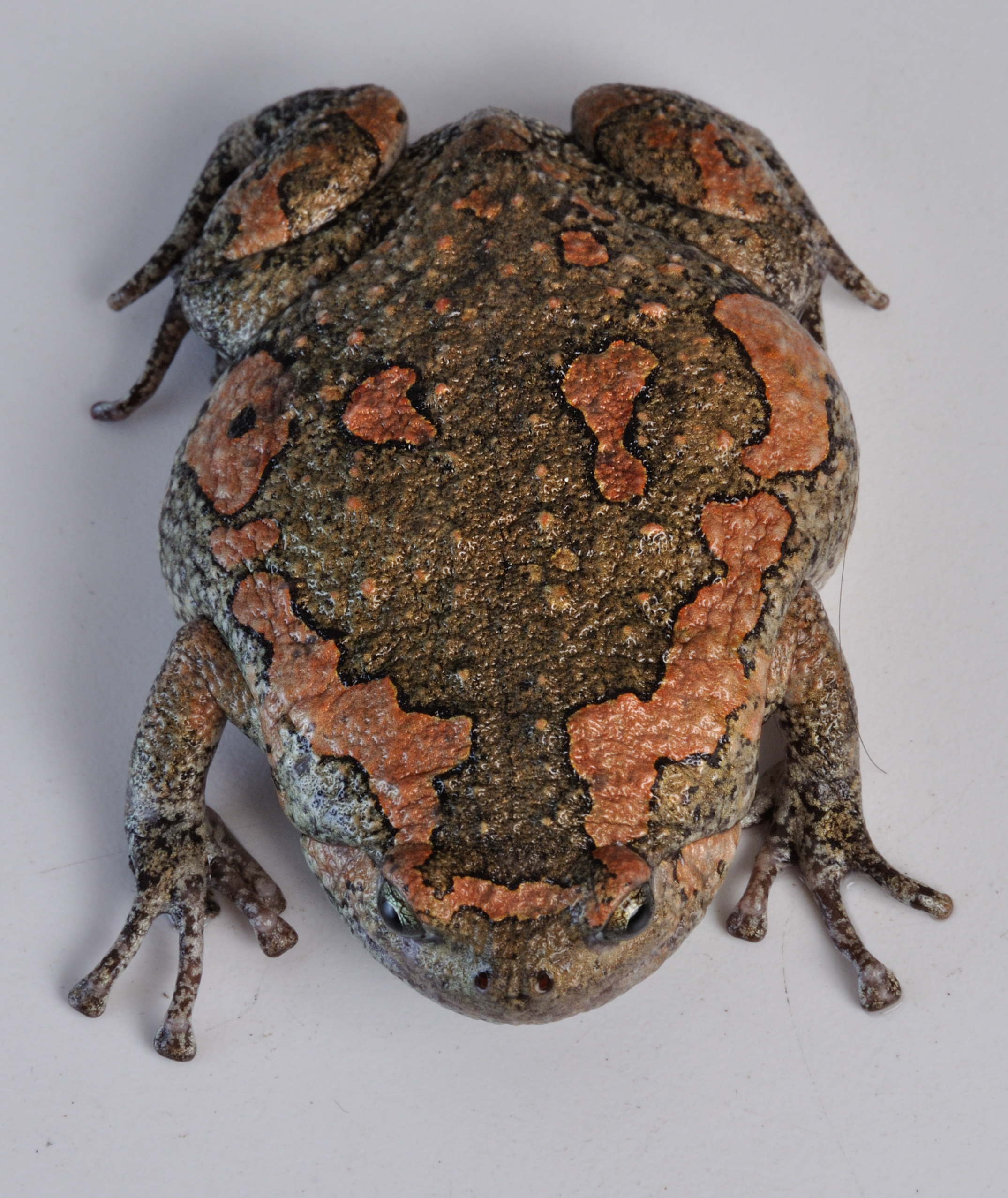 Kaloula taprobanica (Parker, 1934) or Sri Lankan Bullfrog or Sri Lankan Painted Frog is a species of narrow-mouthed frog found in Sri Lanka, Bangladesh and some eastern and southeastern parts of India. This amphibian has found at Sector V, Salt Lake City (Bidhan Nagar), Kolkata. Photographed at studio environment.